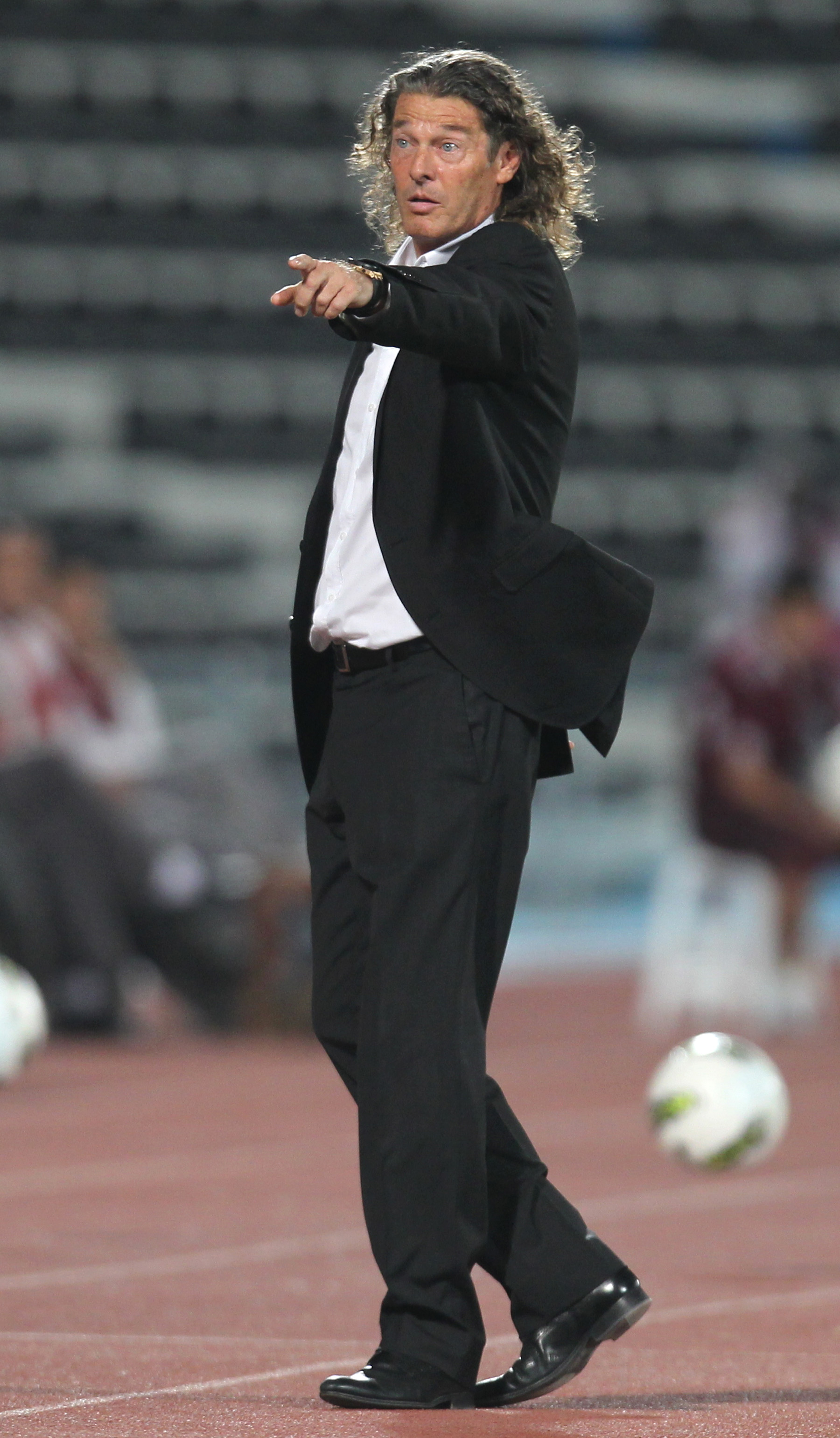 Bruno Metsu